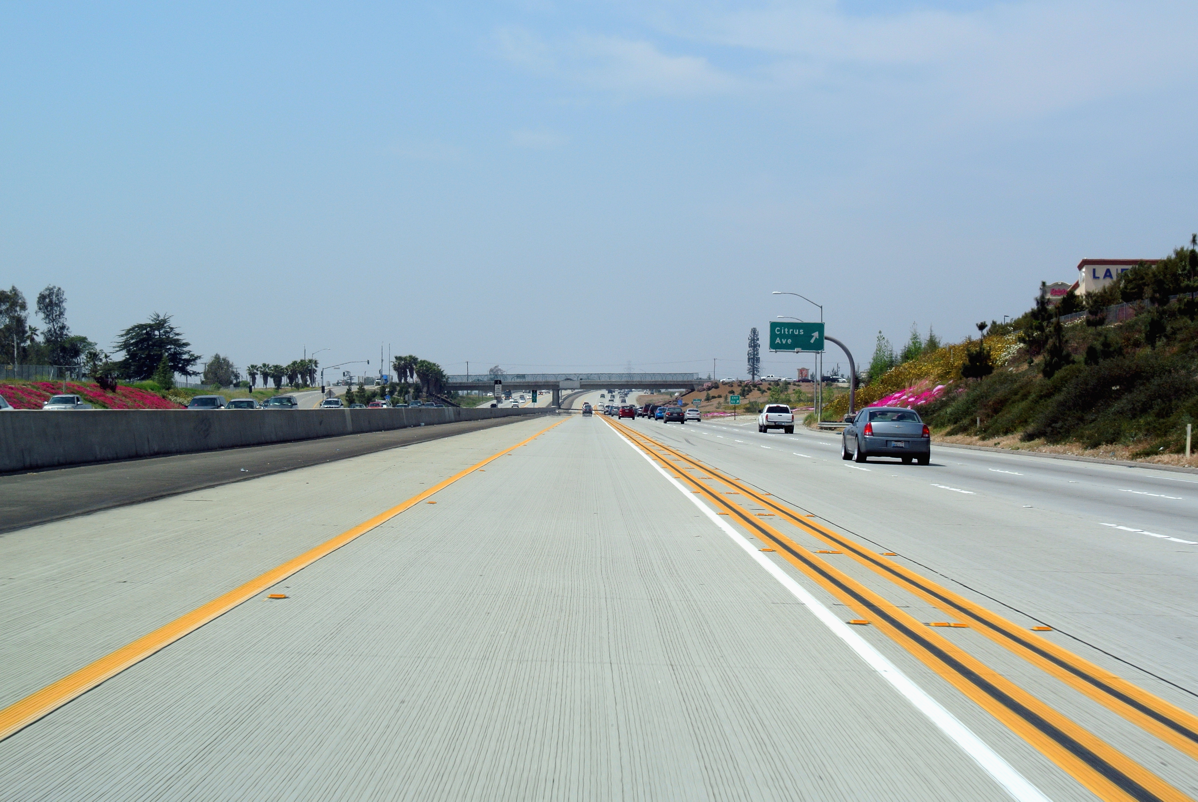 I-210 and CA-210 as Foothill Freeway in Fontana, carpooling lane.